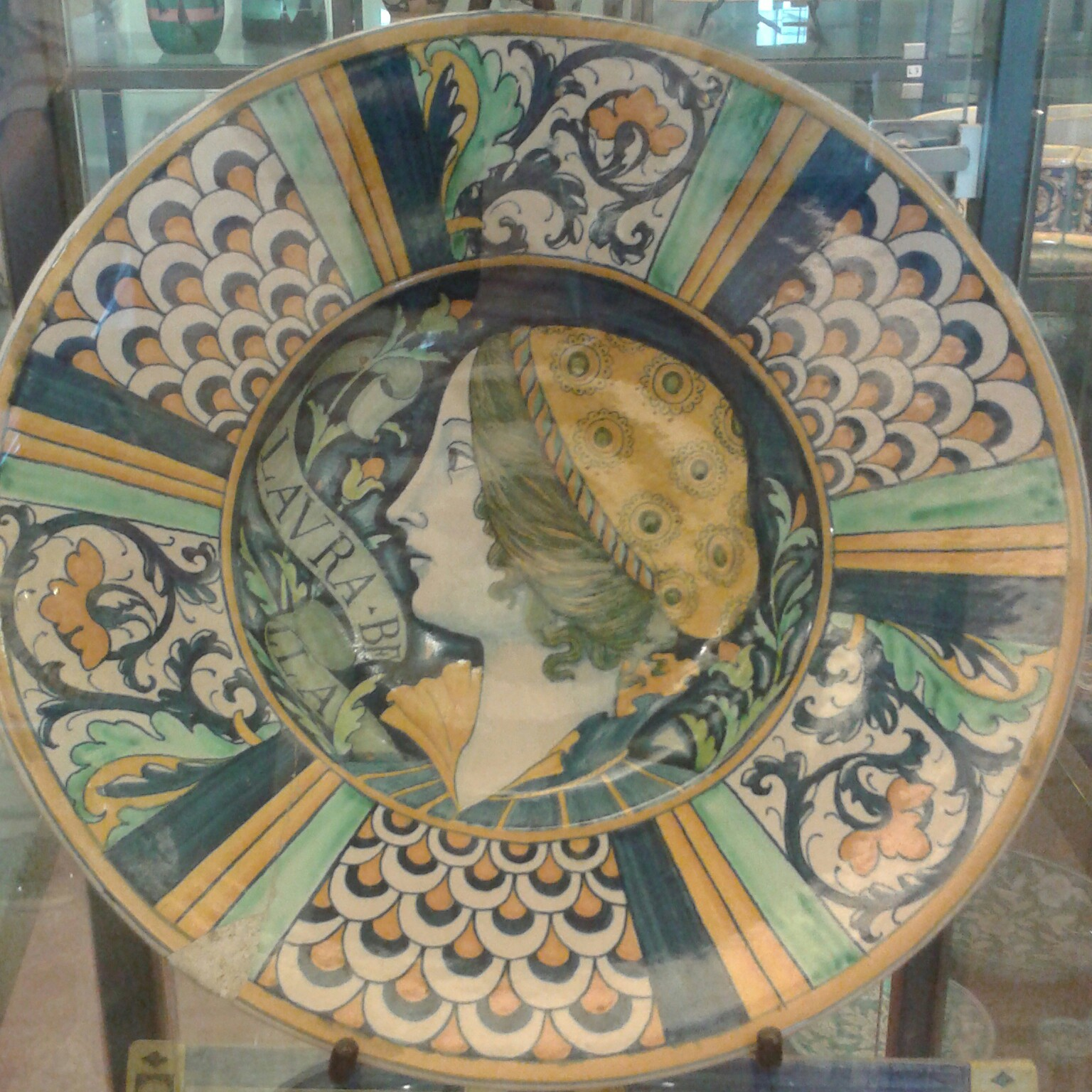 Alpinolo Magnini, piatto con donna, museo della fabbrica grazia di deruta